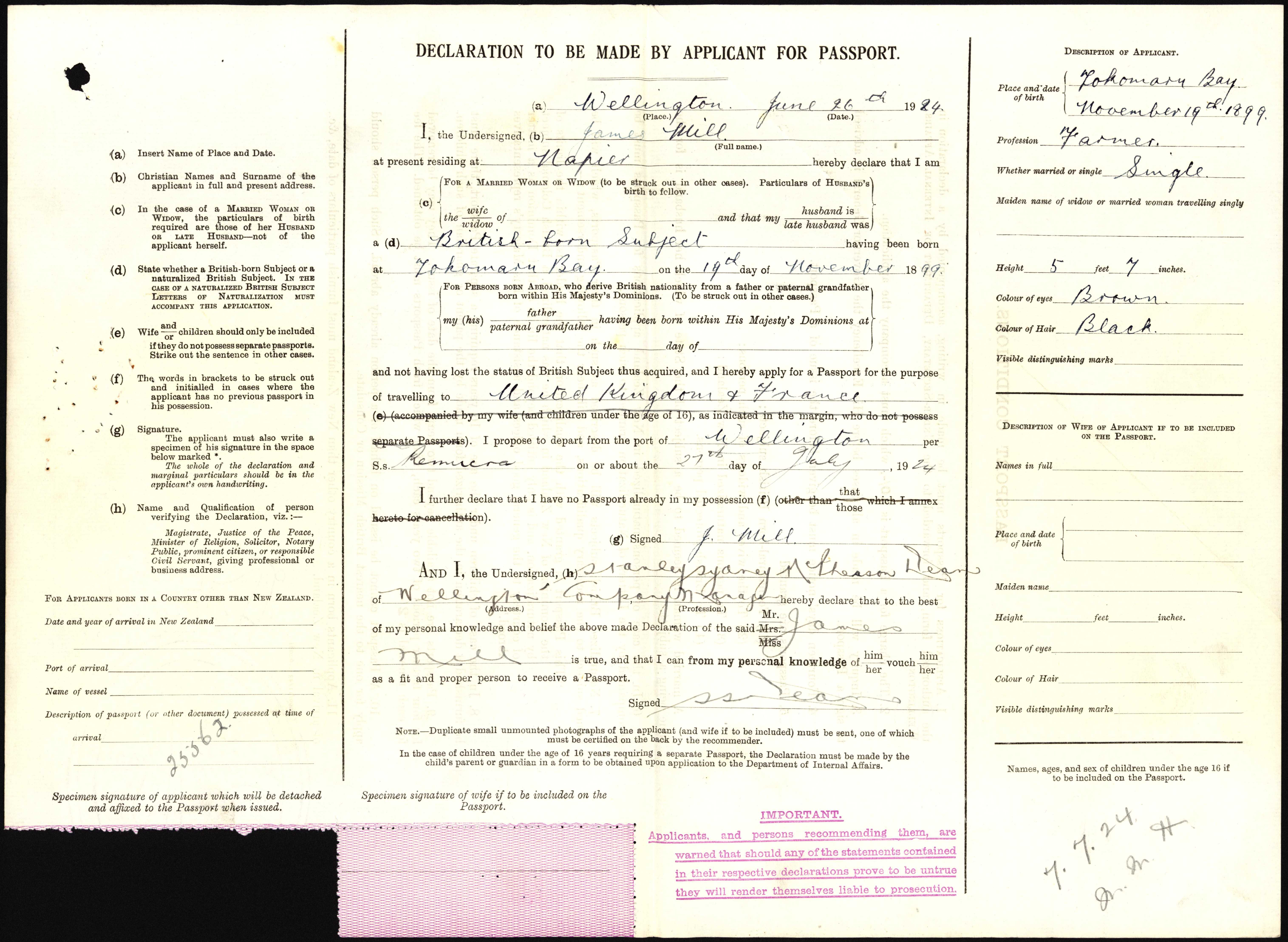 ACGO 8333 IA1 1349 / 15/11/17721 James Mill passport application (1924)